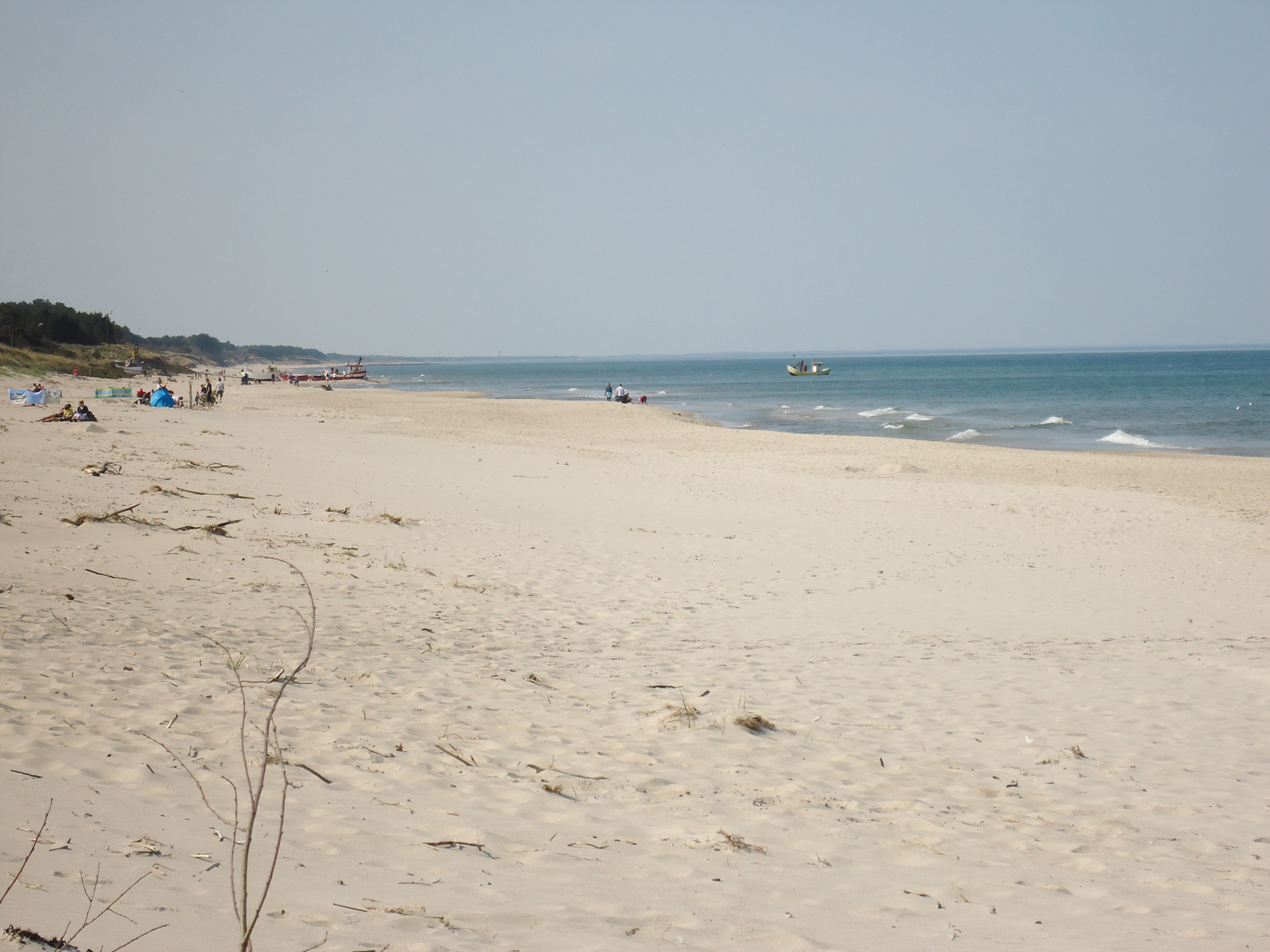 Dąbki - beach